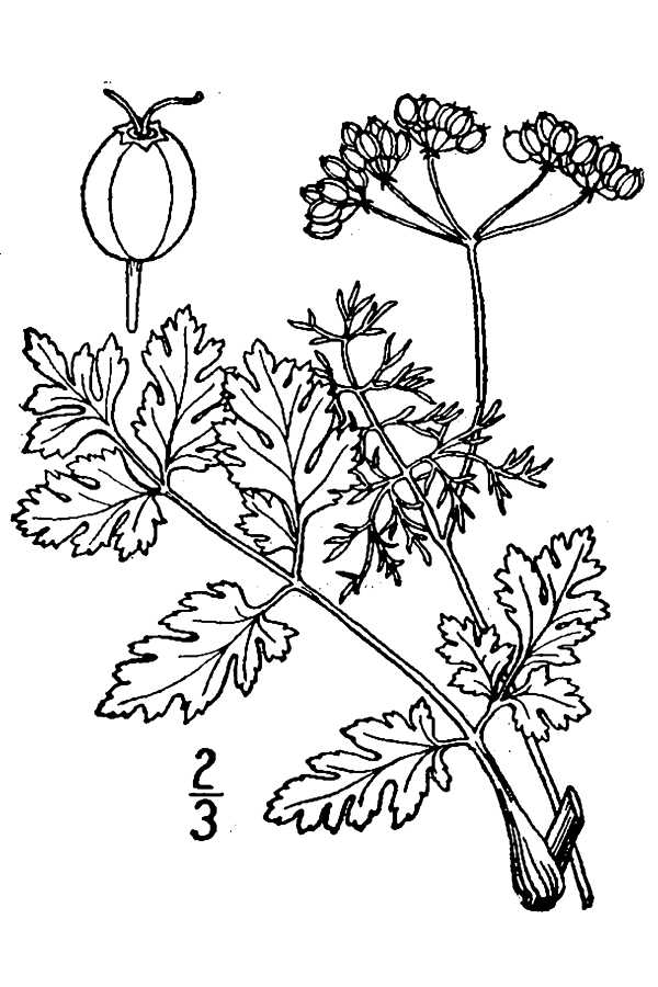 Illustrated flora of the northern states and Canada. Vol. 2: 647.; Echter Koriander (Coriandrum sativum)